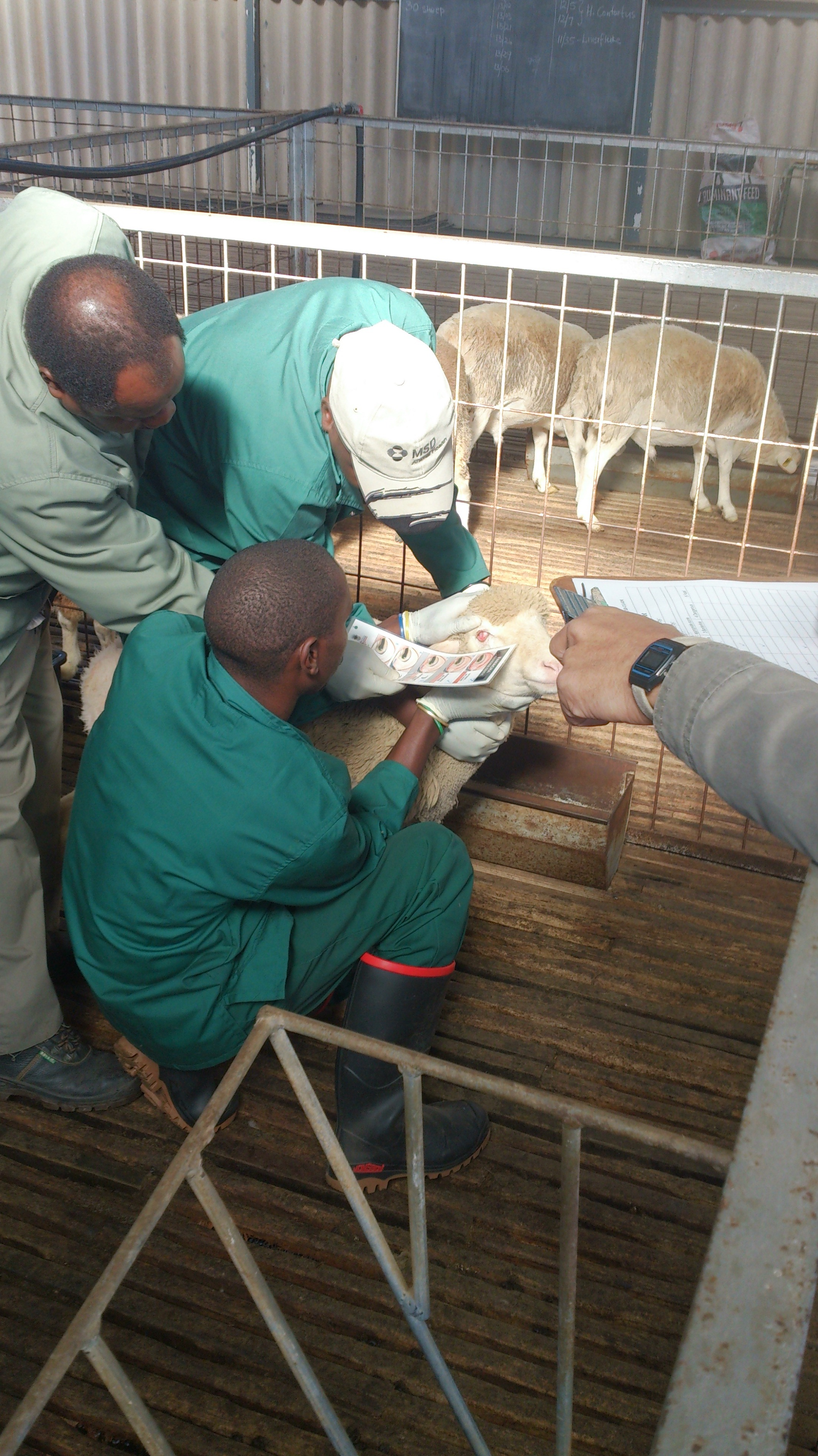 FAMACHA being implemented by farm workers